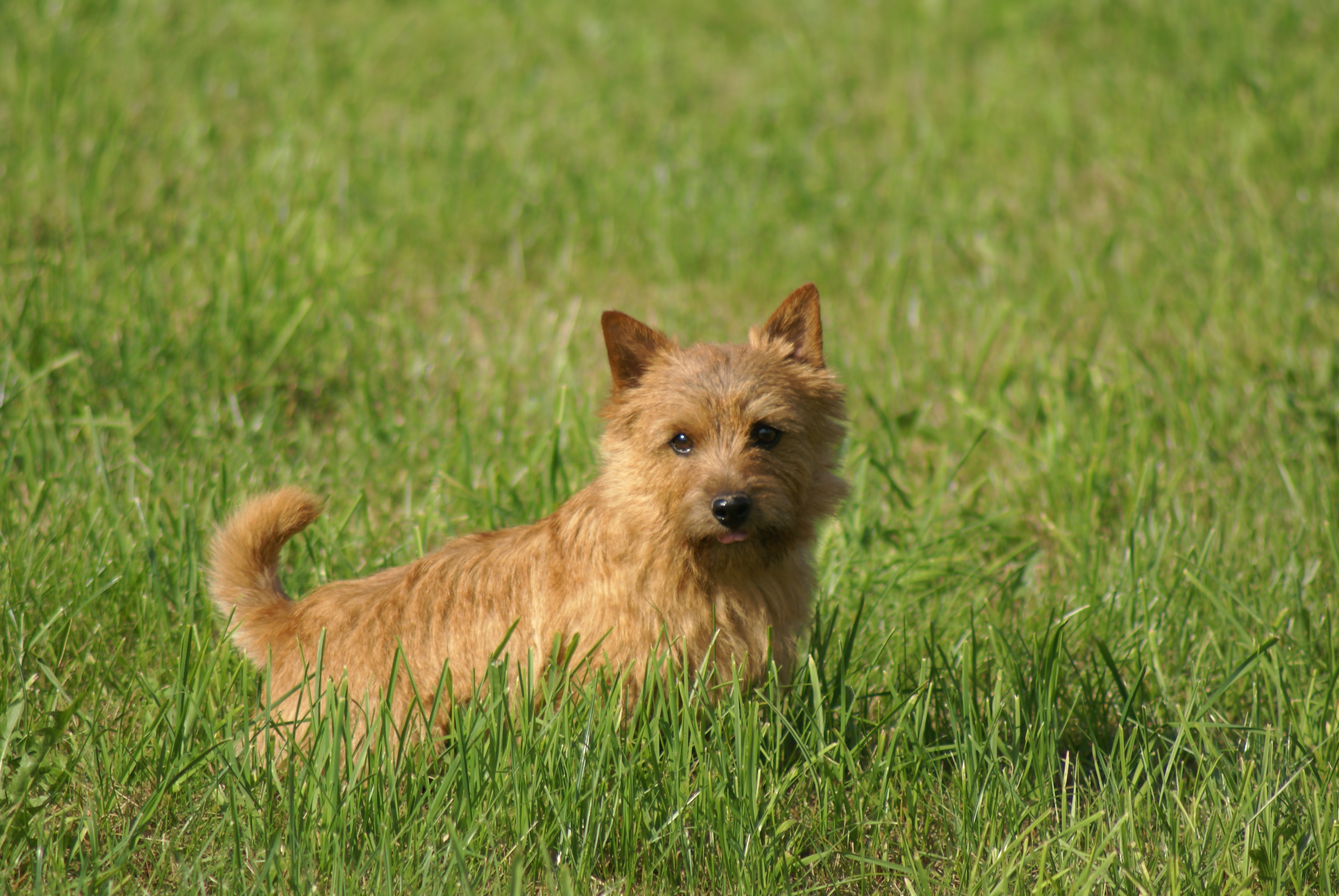 Norwich Terrier of red color